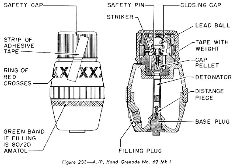 Diagram showing external and sectional view of British No. 69 anti-personnel hand grenade. Construction is of bakelite. Filling is 3¼ ounces Lyddite, Amatol 80/20 or Baratol 20/80. Total weight is 13 ounces. Explosive effect is confined to a small area. Operation : Detonator is inserted into base hole and base plug is replaced. Adhesive tape is removed and safety cap is unscrewed and removed. A length of tape with a weight on the end wrapped around the safety pin restrains the striker. When thrown, the weight causes the tape to unwind and pull out the safety pin. On impact the striker is forced into the primer cap which initiates the detonator and explodes the grenade. See also File:N°69 HE bakelite grenade.JPG for photograph.